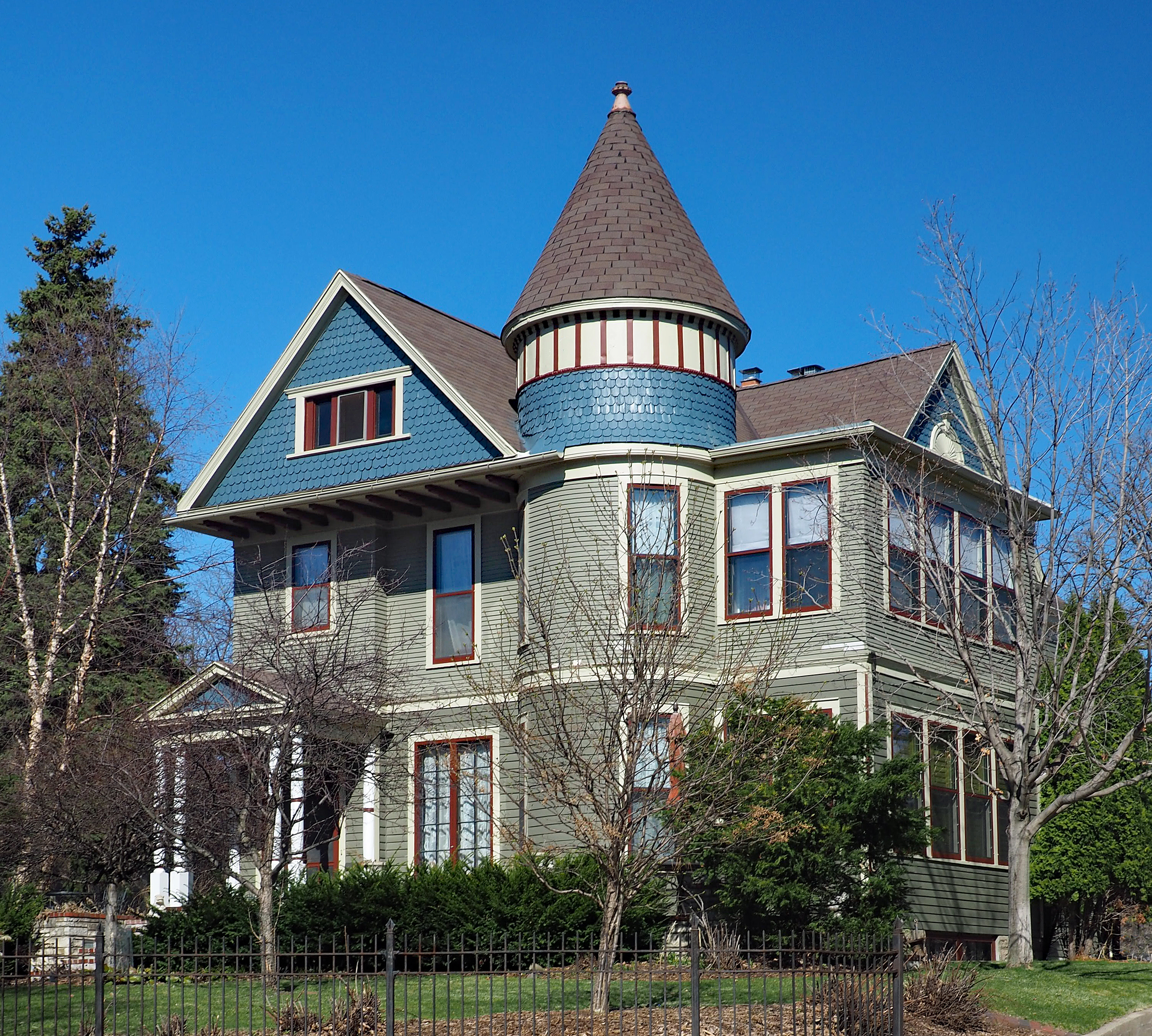 Andrew R. McGill House, 2203 Scudder Ave, St Paul, Minnesota, USA. Viewed from the southeast.